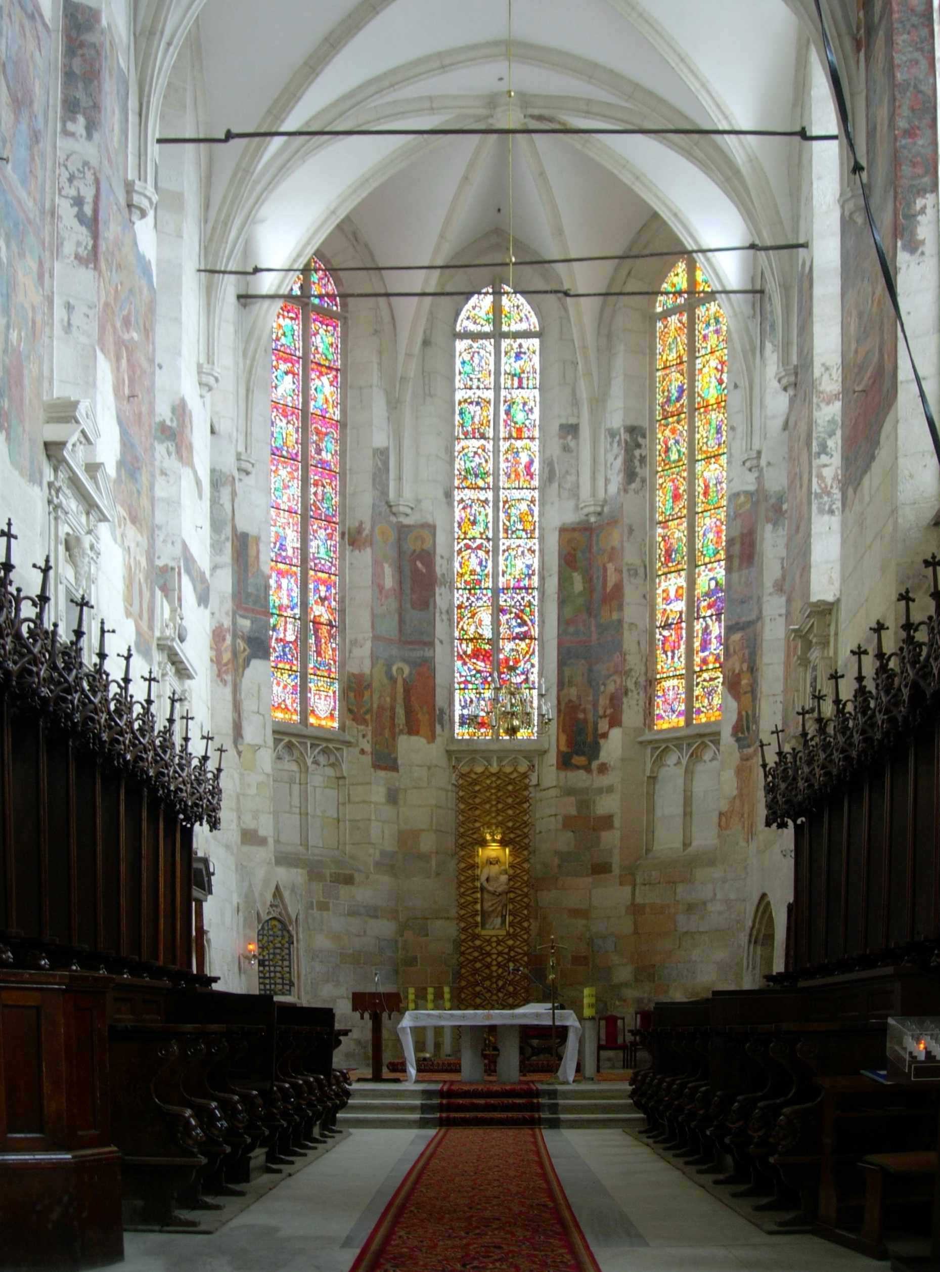 The presbytery of basilica in Wiślica, Poland